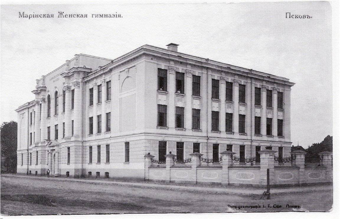 Мариинская женская гимназия